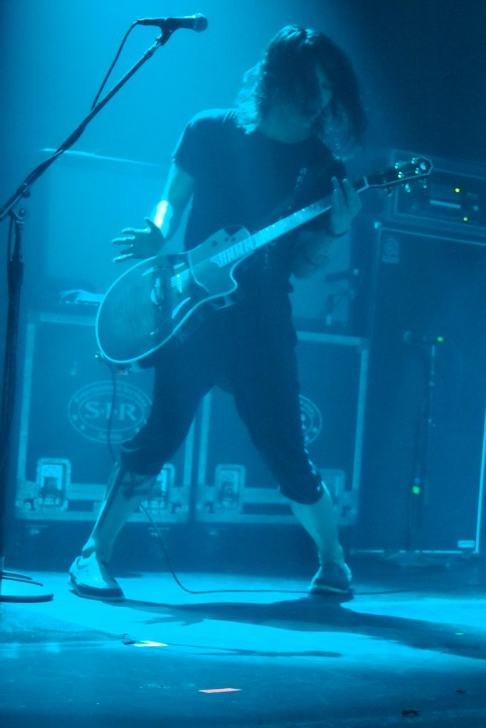 Miyavi jamming at Irving Plaza in New York, United States, on October 31, 2011. Photo by May S. Young